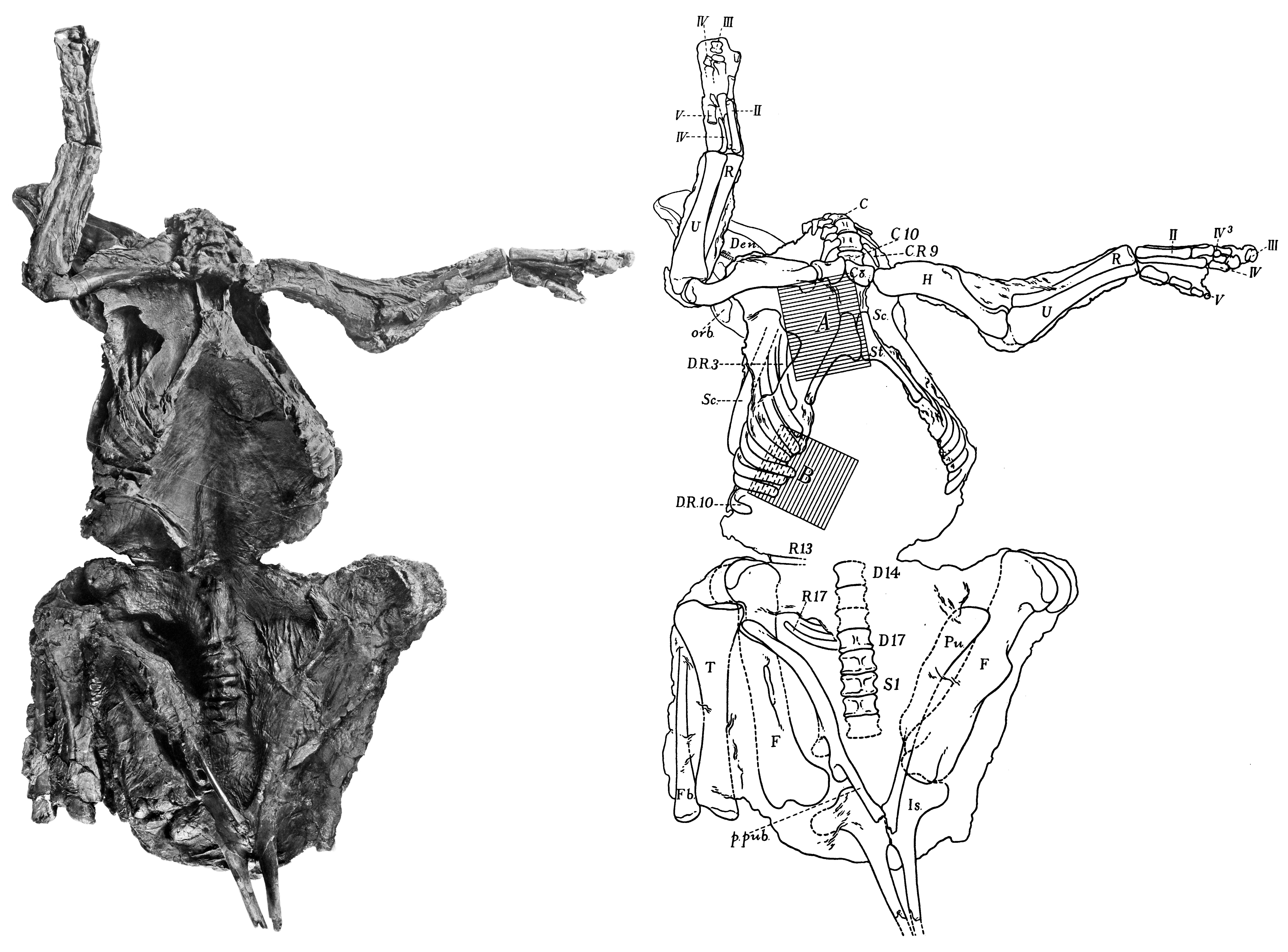 Original description: Fig. 1a. Outline of the ventral aspect of the Trachodon annectens 'mummy'. Designed as a key to drawings and plates. Scale 1/17. A, location of the epidermal impression area shown in Pl. VI. B, location of epidermal impression area shown in Pl. VII.